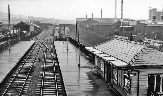 Bredbury Station. View SE, towards Romiley,New Mills and Hayfield, and Macclesfield; ex-GC & Midland Joint line, Manchester - Reddish - Romiley - Macclesfield/New Mills and Hayfield lines, which were closed beyond Rose Hill/New Mills on 5/1/70.